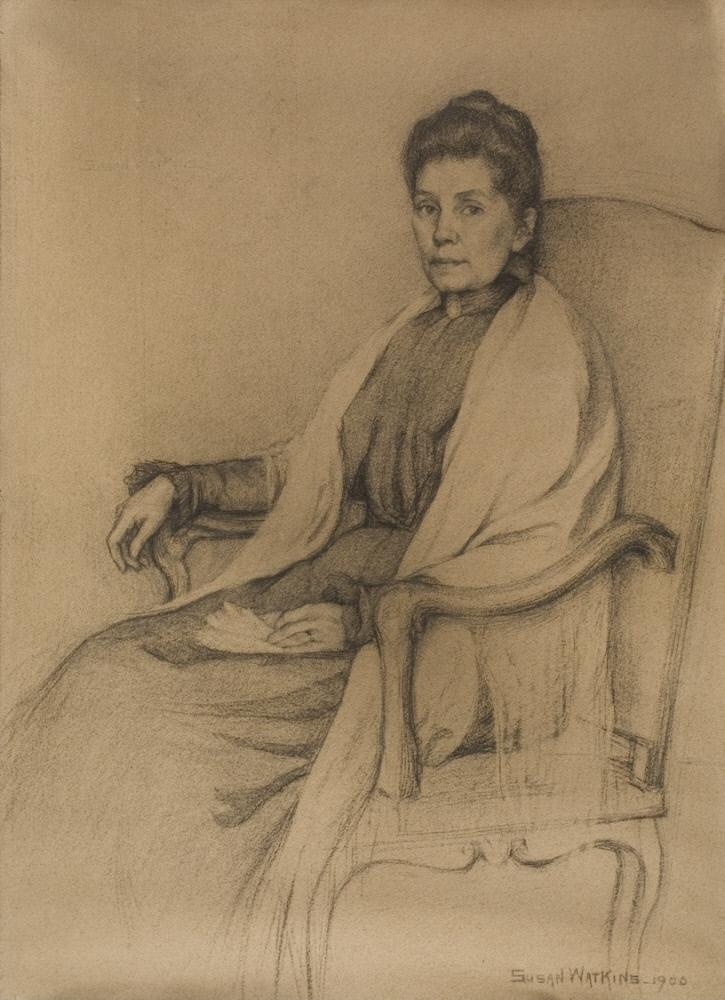 Mrs. Watkins - Susan Watkins's mother - crayon on paper 1900